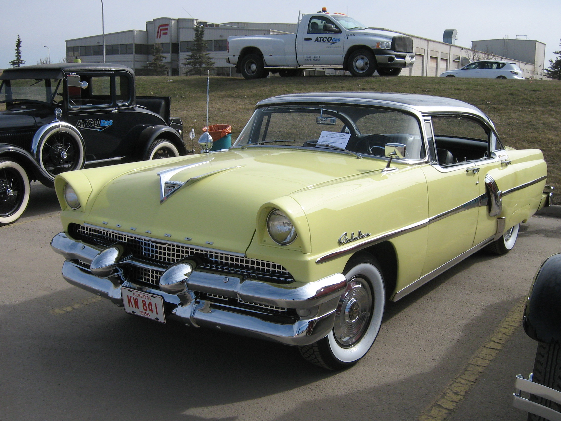 1956 Mercury Monarch Richelieu (Ford Canada)